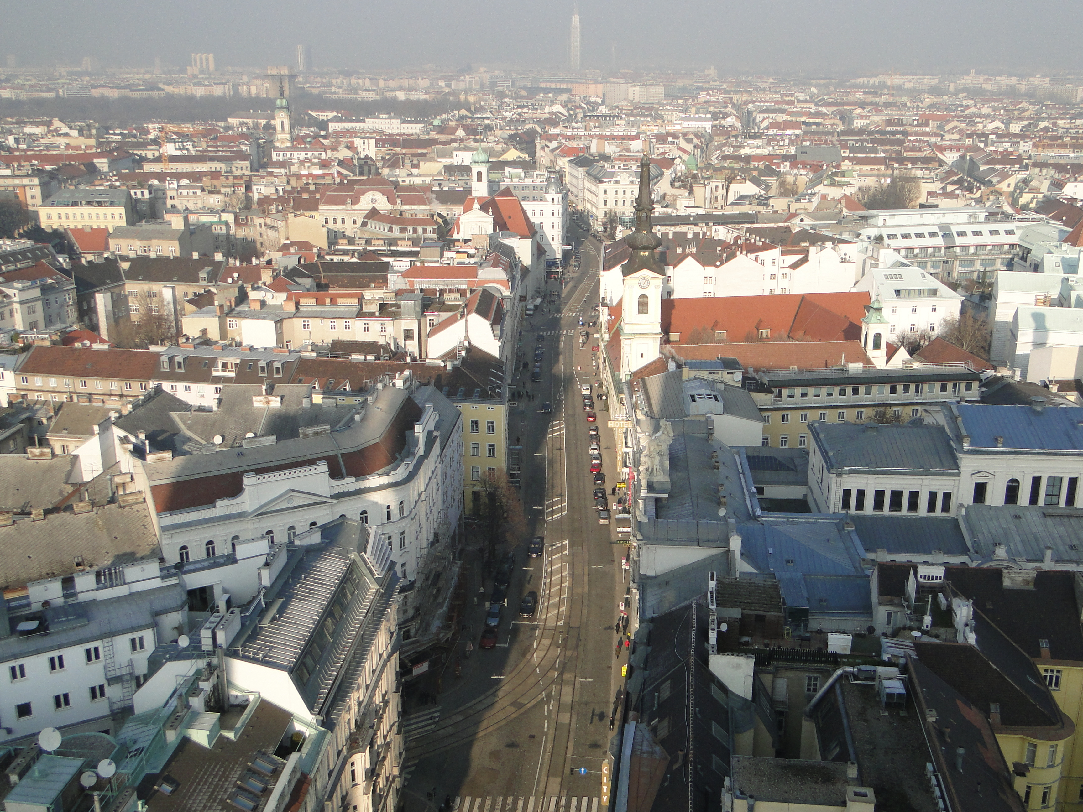 View from Sofitel Vienna